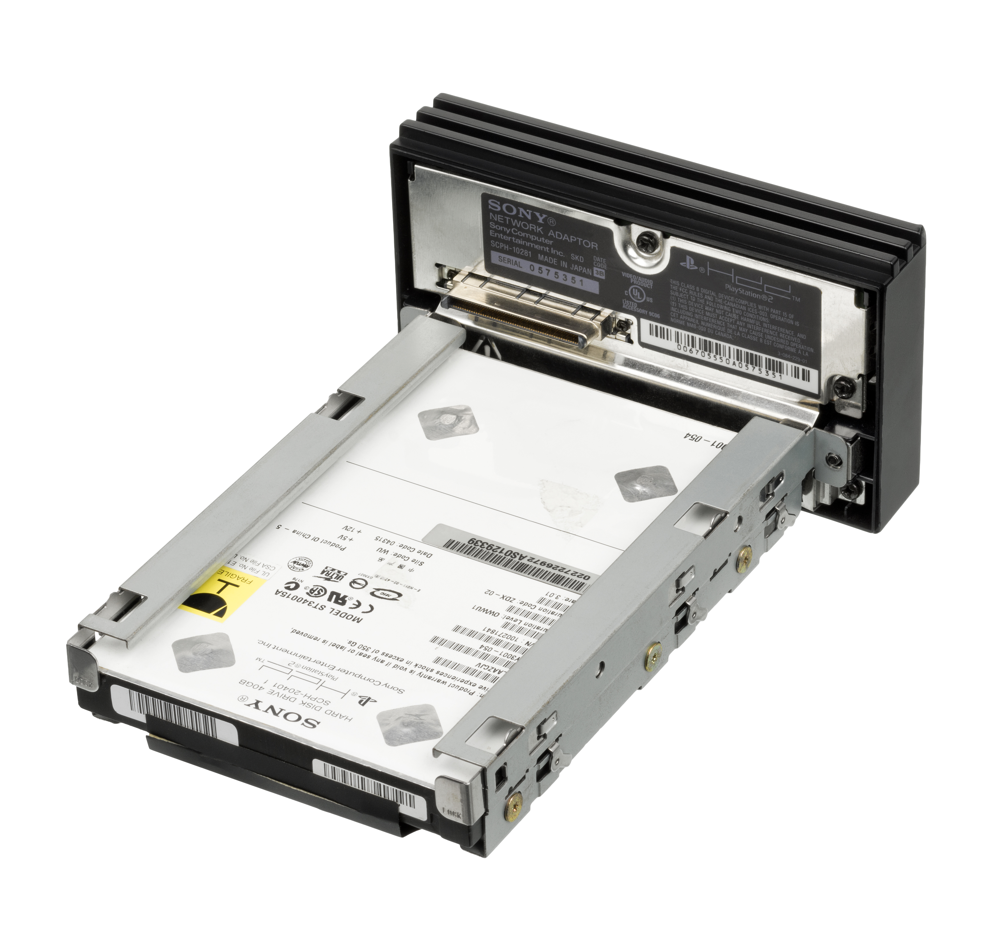 The official 40GB hard drive accessory ST340015A for the Sony PlayStation 2 video game console. Shown attached to the required network adapter, the hard drive only works with the original "fat" model PlayStation to provide HD storage. This came with and was required for Final Fantasy XI, but only a few games were able to use it. Could also be used to store game saves.